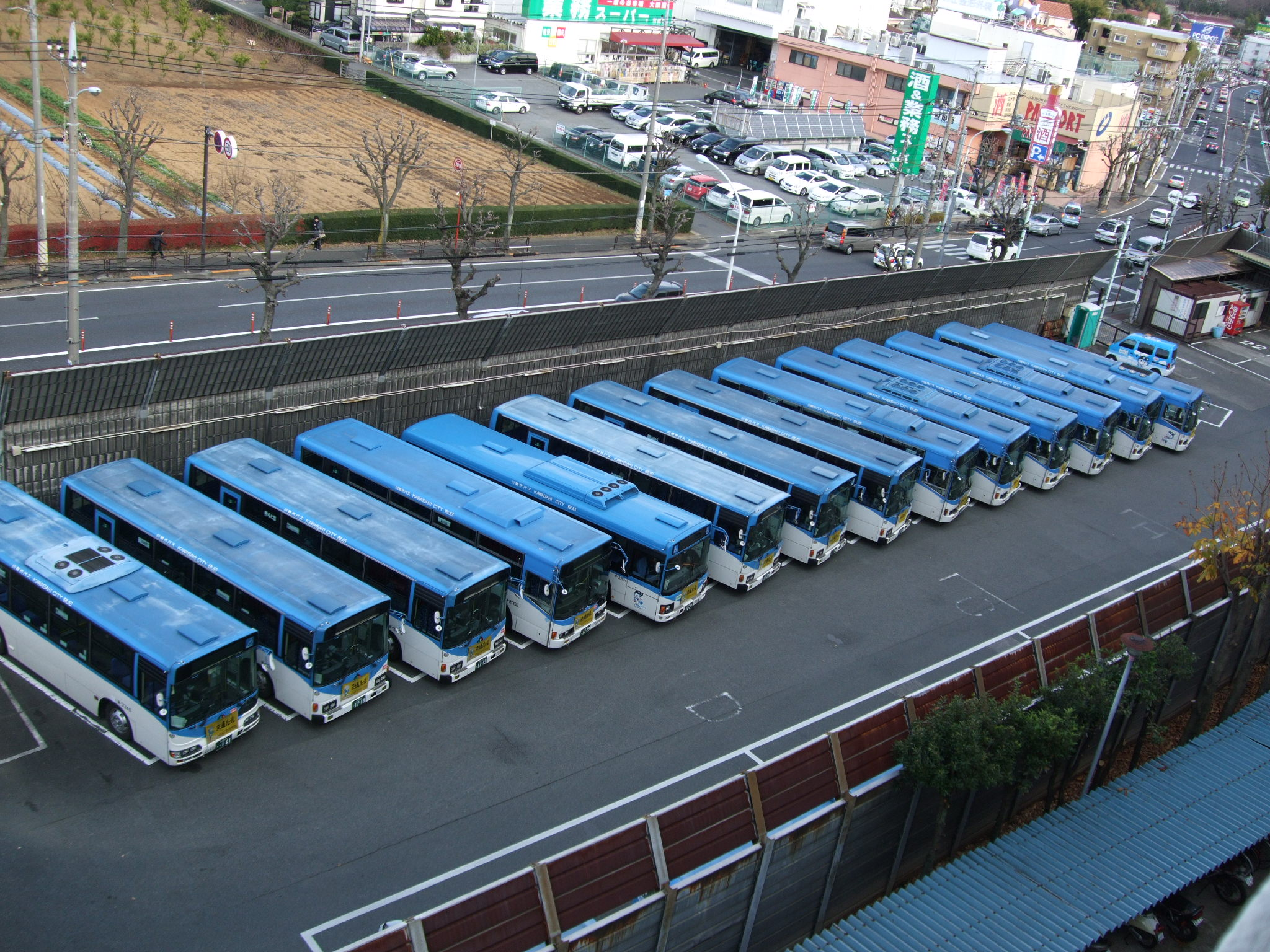 Kawasaki City Bus Sugao Dept.a crane shot